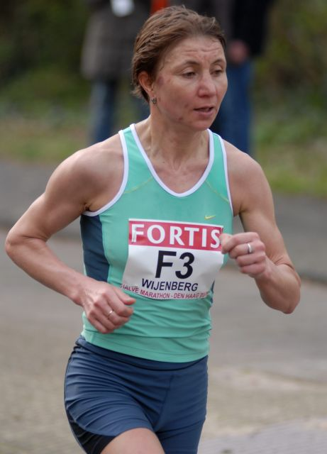 Nadja Wijenberg during City-Pier-Cityloop in The Hague